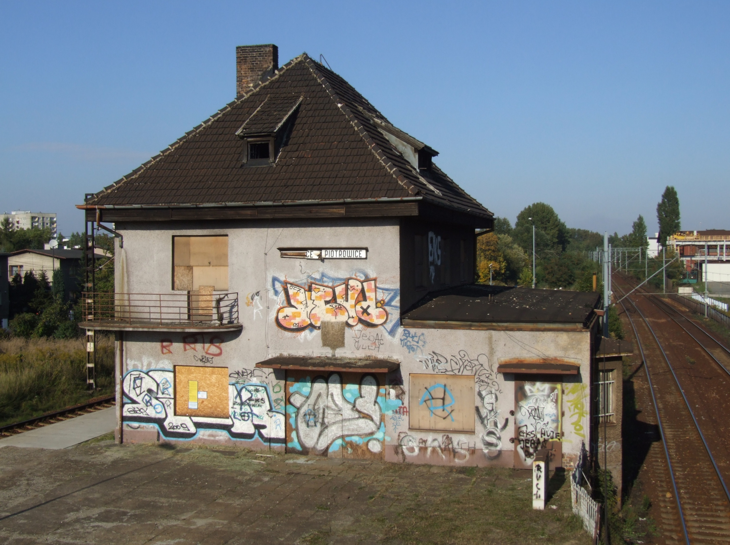 Train station Katowice-Piotrowice Ślůnski: Banhow Katowicy-Pjotrowicy